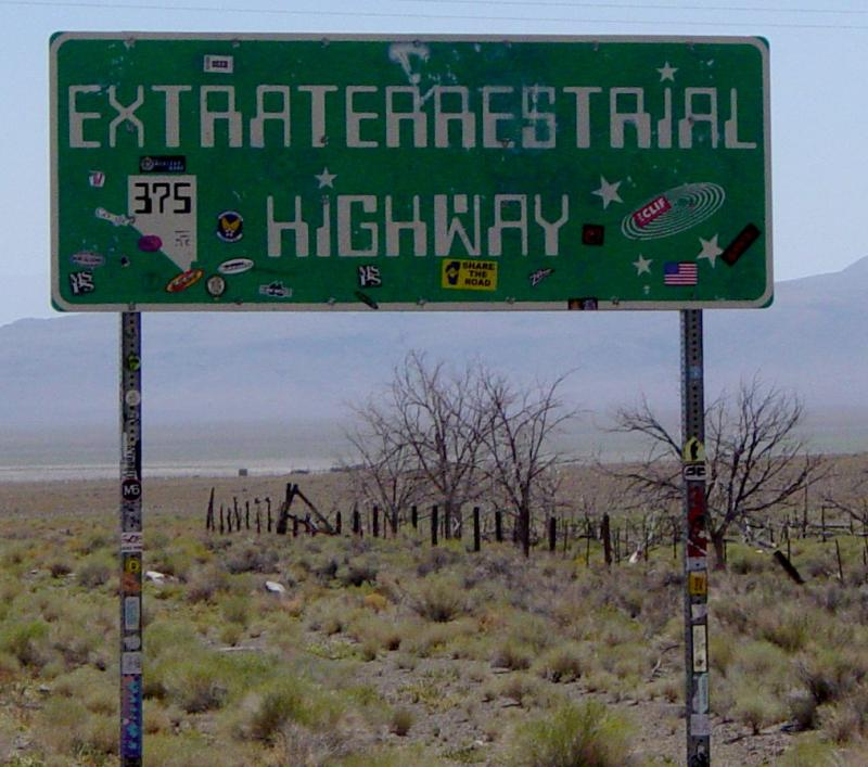 ET highway sign